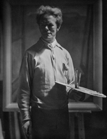 Frederick Horsman Varley, probably at the Vancouver School of Decorative & Applied Arts.